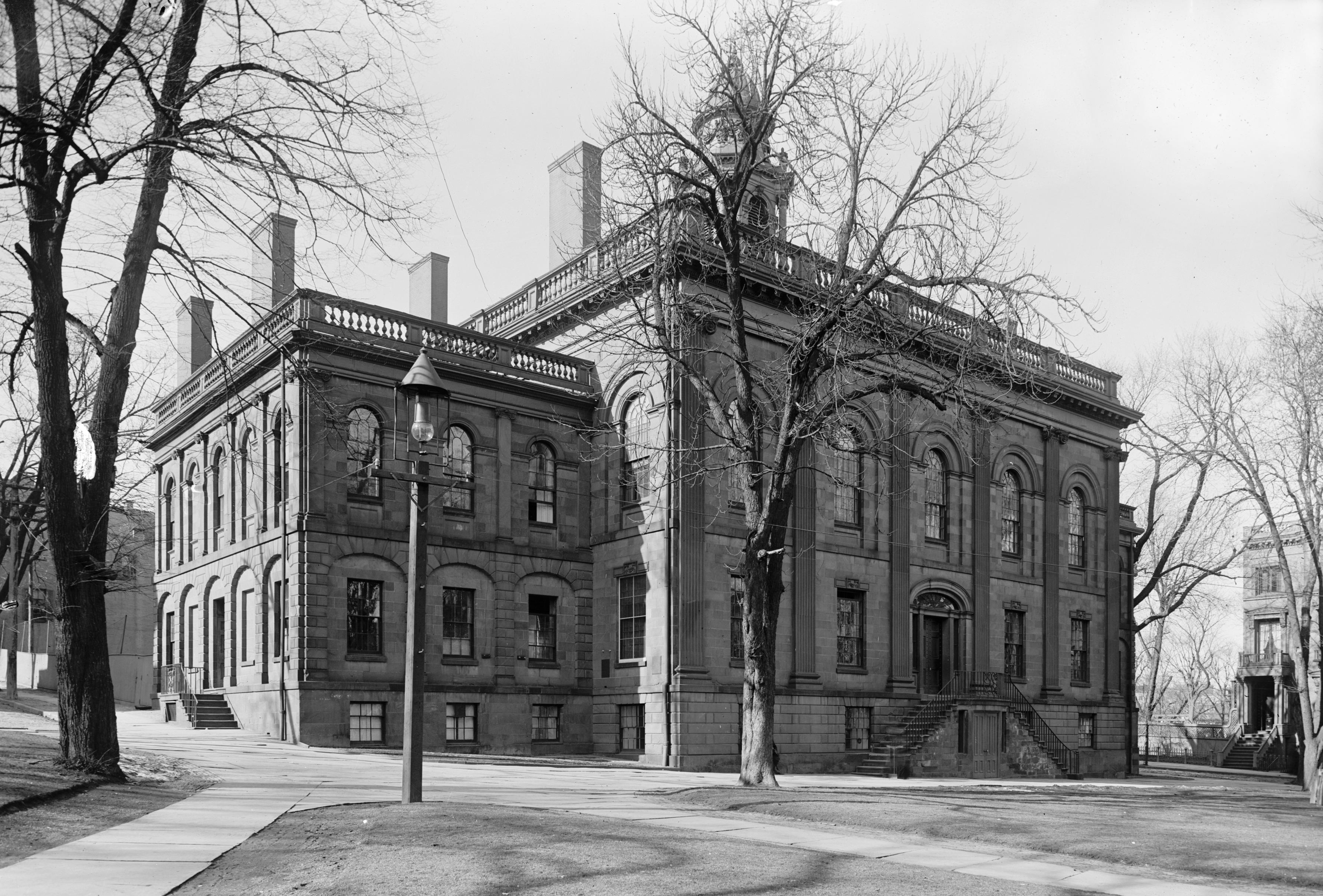 Exterior of Albany's Boys Academy in Albany, New York